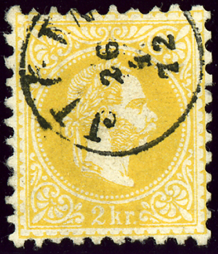 Austrian KK 2 kreuzer stamp, cancelled in 1872 at JICIN, Bohemia - Fingerhut Klein type 440